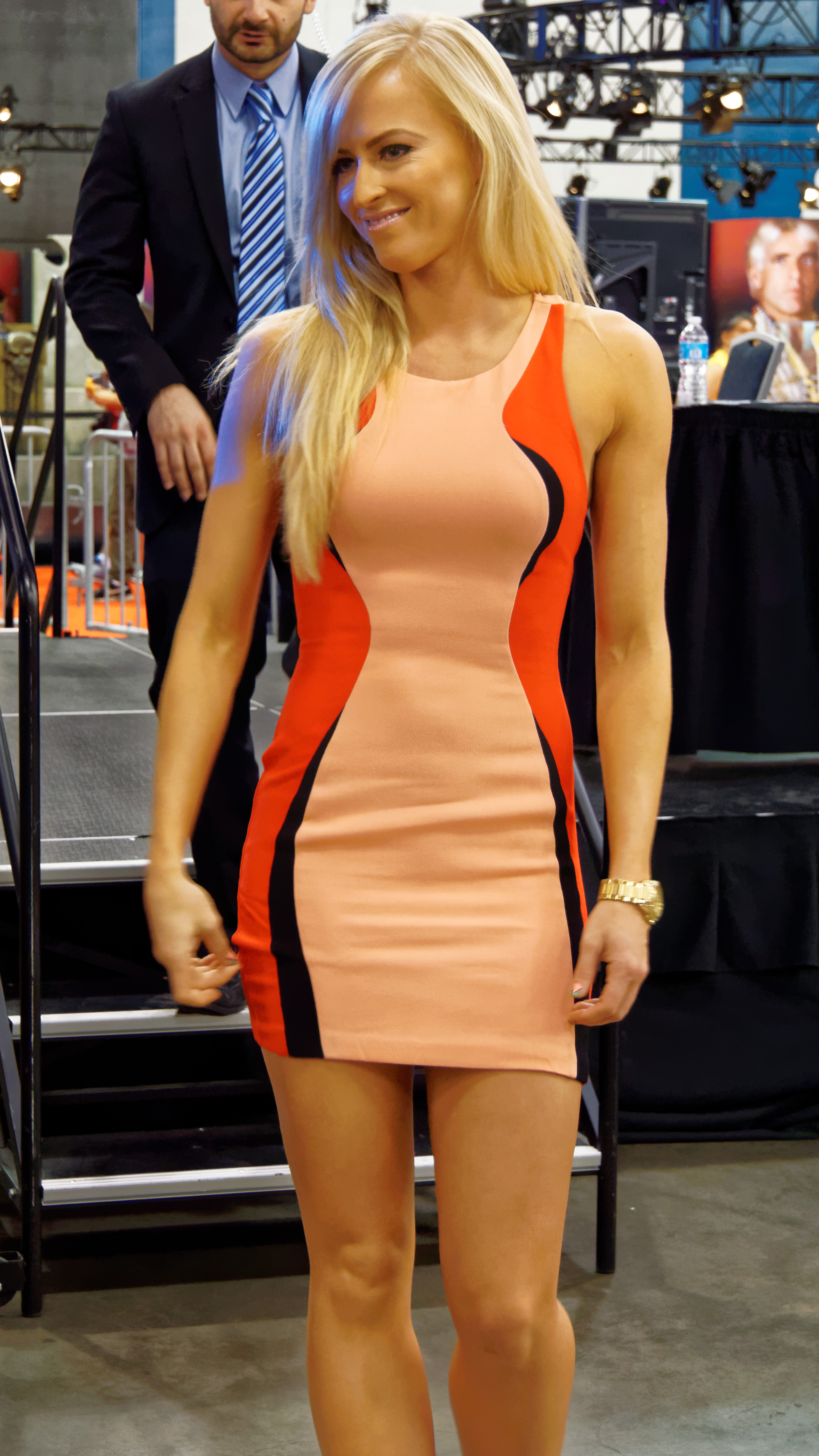 Summer Rae appearing at WrestleMania Axxess